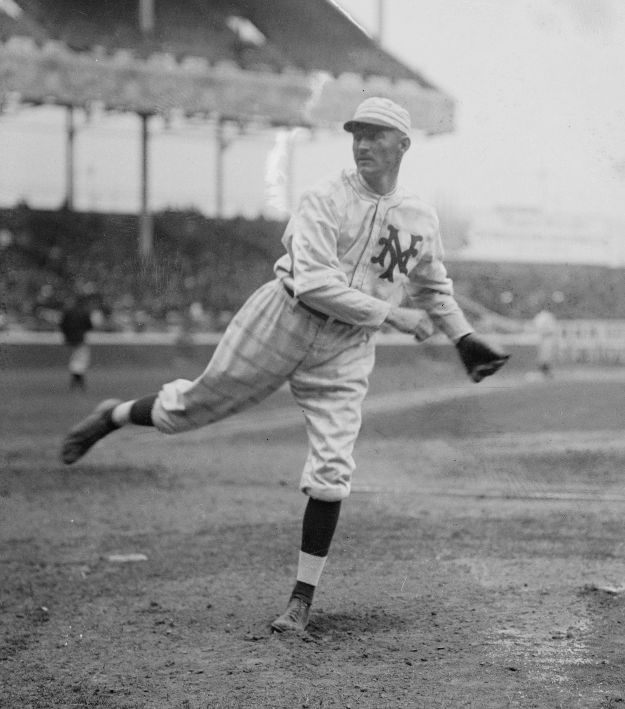 Title: Ralph "Sailor" Stroud, New York NL (baseball) Abstract/medium: 1 negative : glass ; 5 x 7 in. or smaller.